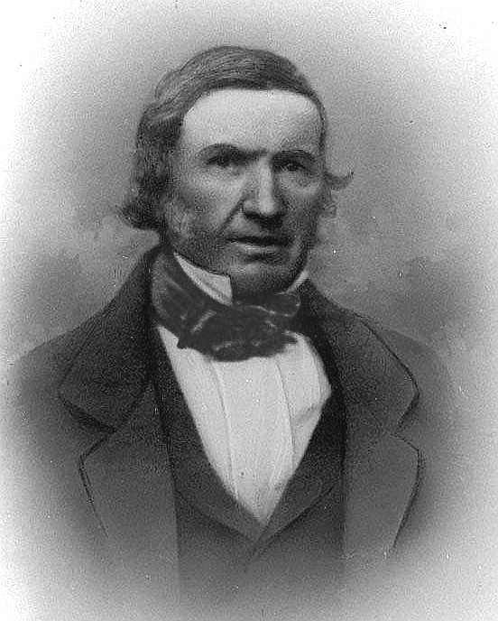 Portrait of Hugh Philp (1786–1856), master golf club maker.